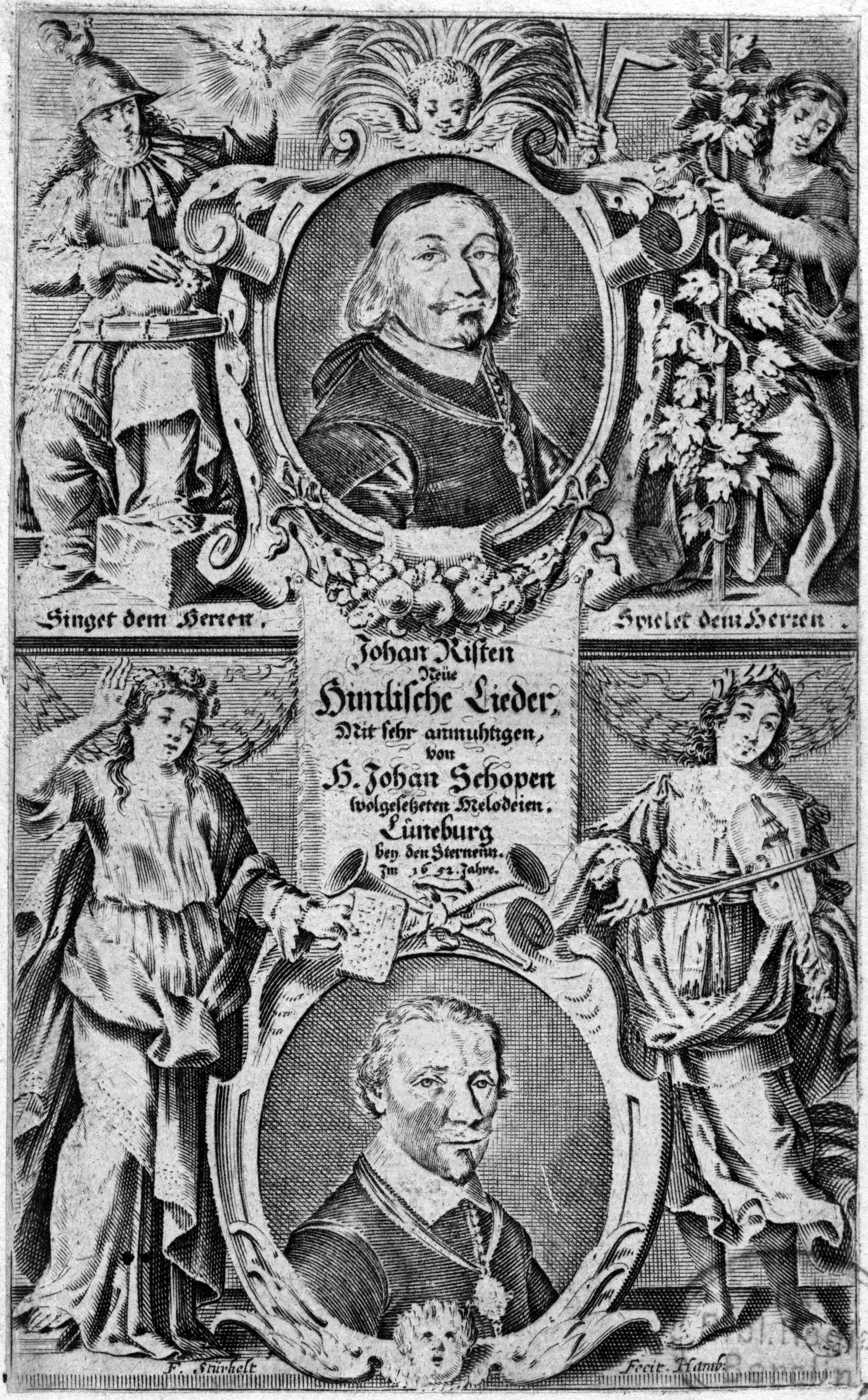 Depicted people: Johann Rist and Johann Schop